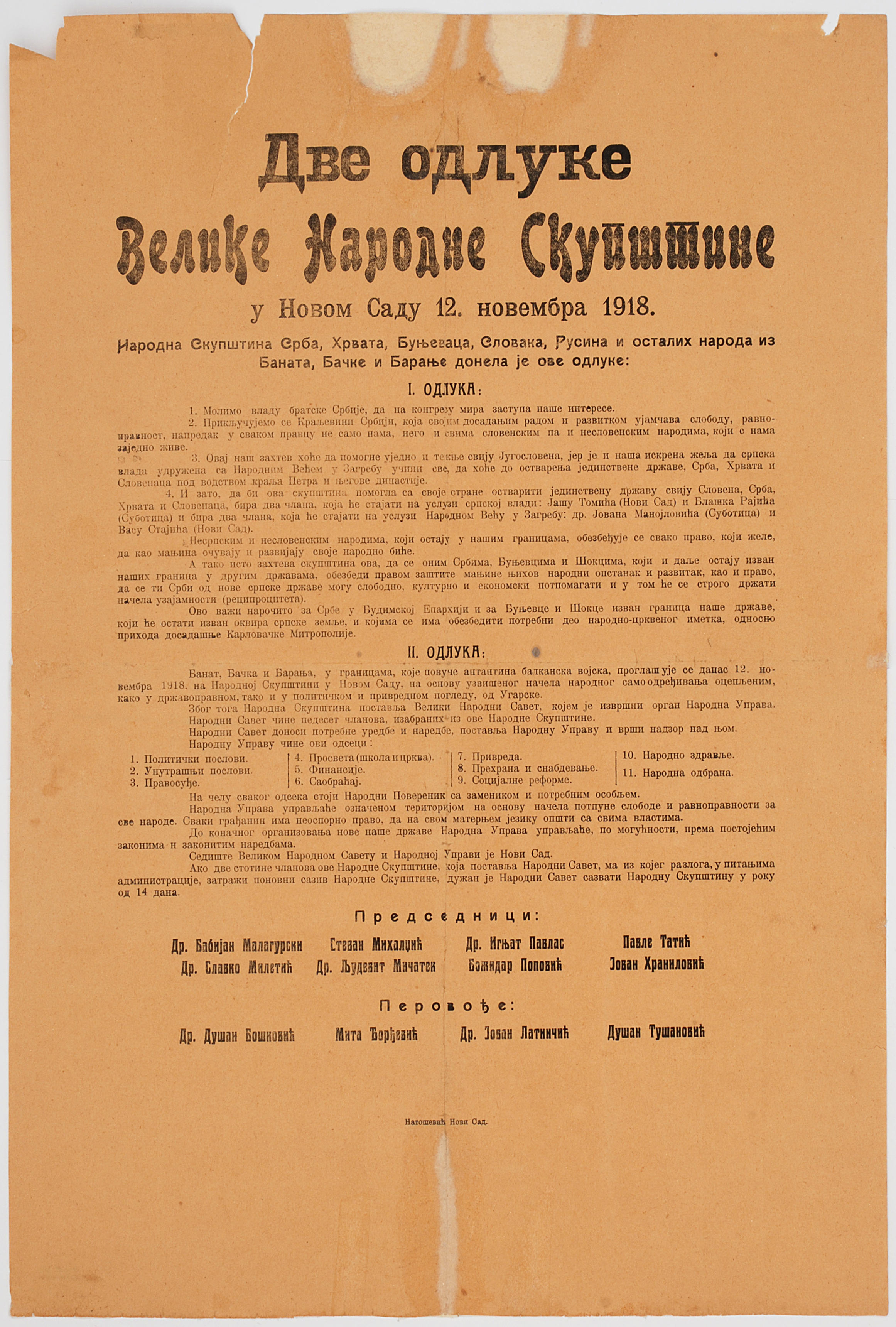 Two decisions of Great National Assembly of Serbs, Bunjevci and other Slavs in Banat, Bačka and Baranja in Novi Sad from 12 November 1918 on the accession of Vojvodina to the Kingdom of Serbia Srpski (latinica): Dve odluke Velike narodne skupštine Srba, Bunjevaca i ostalih Slovena u Banatu, Bačkoj i Baranji u Novom Sadu od 12. novembra 1918. o prisajedinjenju Vojvodine Kraljevini Srbiji